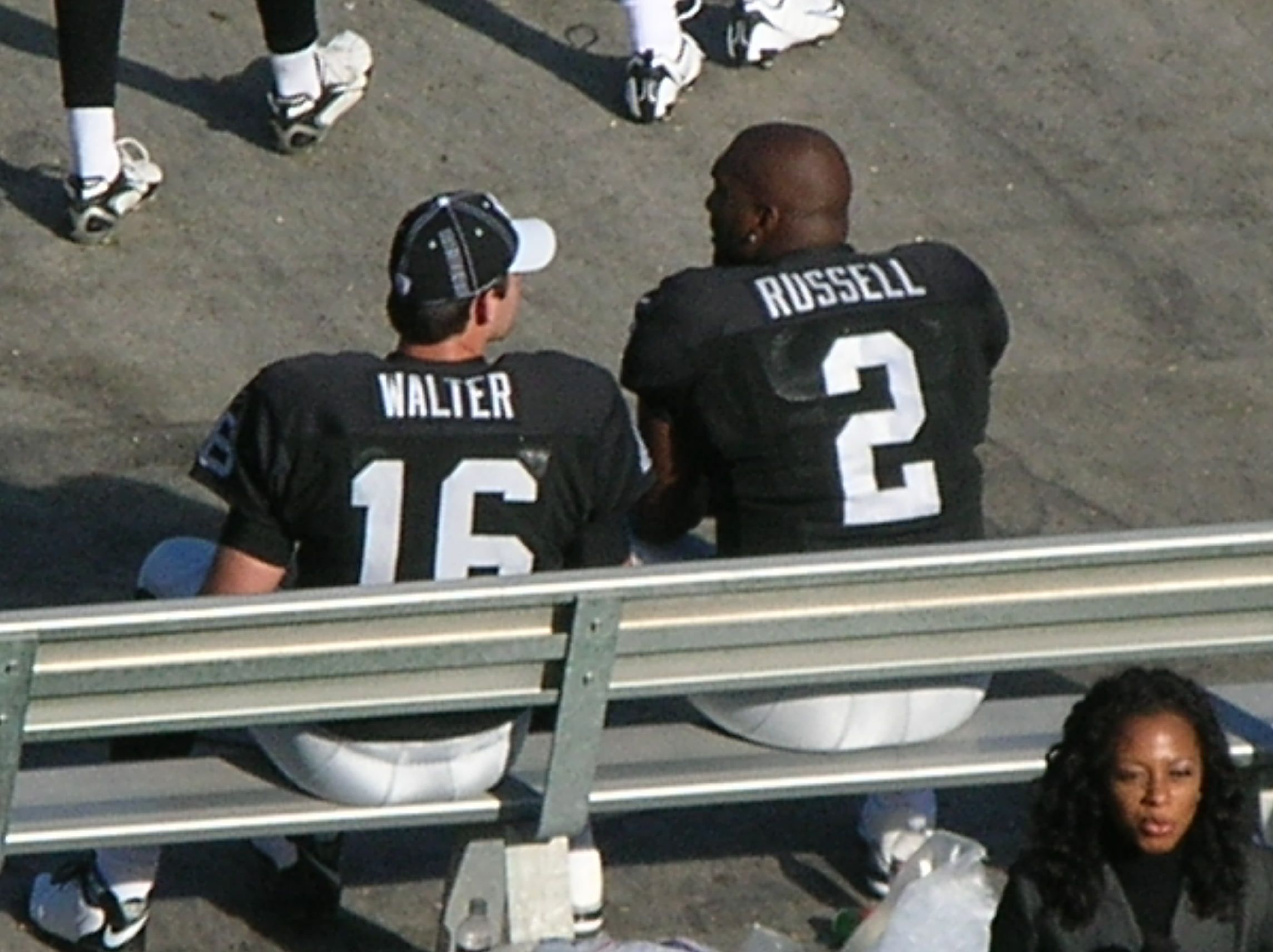 Oakland Raiders quarterbacks Andrew Walter and JaMarcus Russell on the sidelines at a home game against the Atlanta Falcons. The Falcons won 24-0.